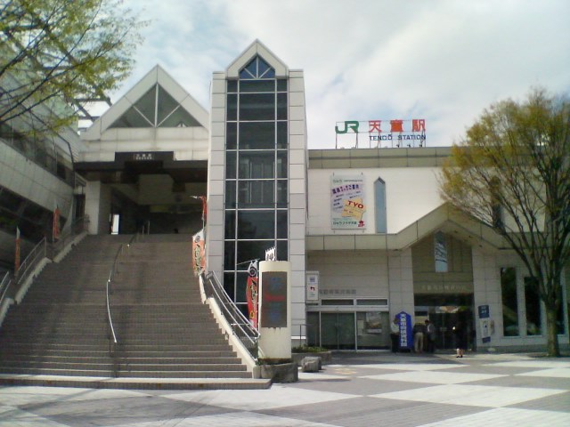 Tendo Station (East Entrance) (天童駅) and Tendo City Shogi Museum (天童市将棋資料館), Yamagata Pref., Japan